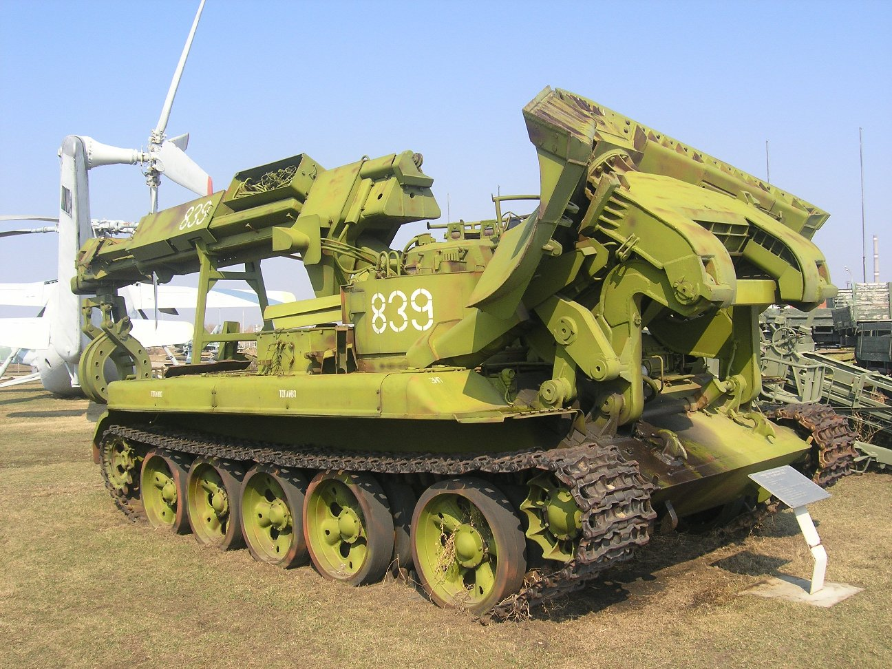 IMR in Technical museum Togliatti